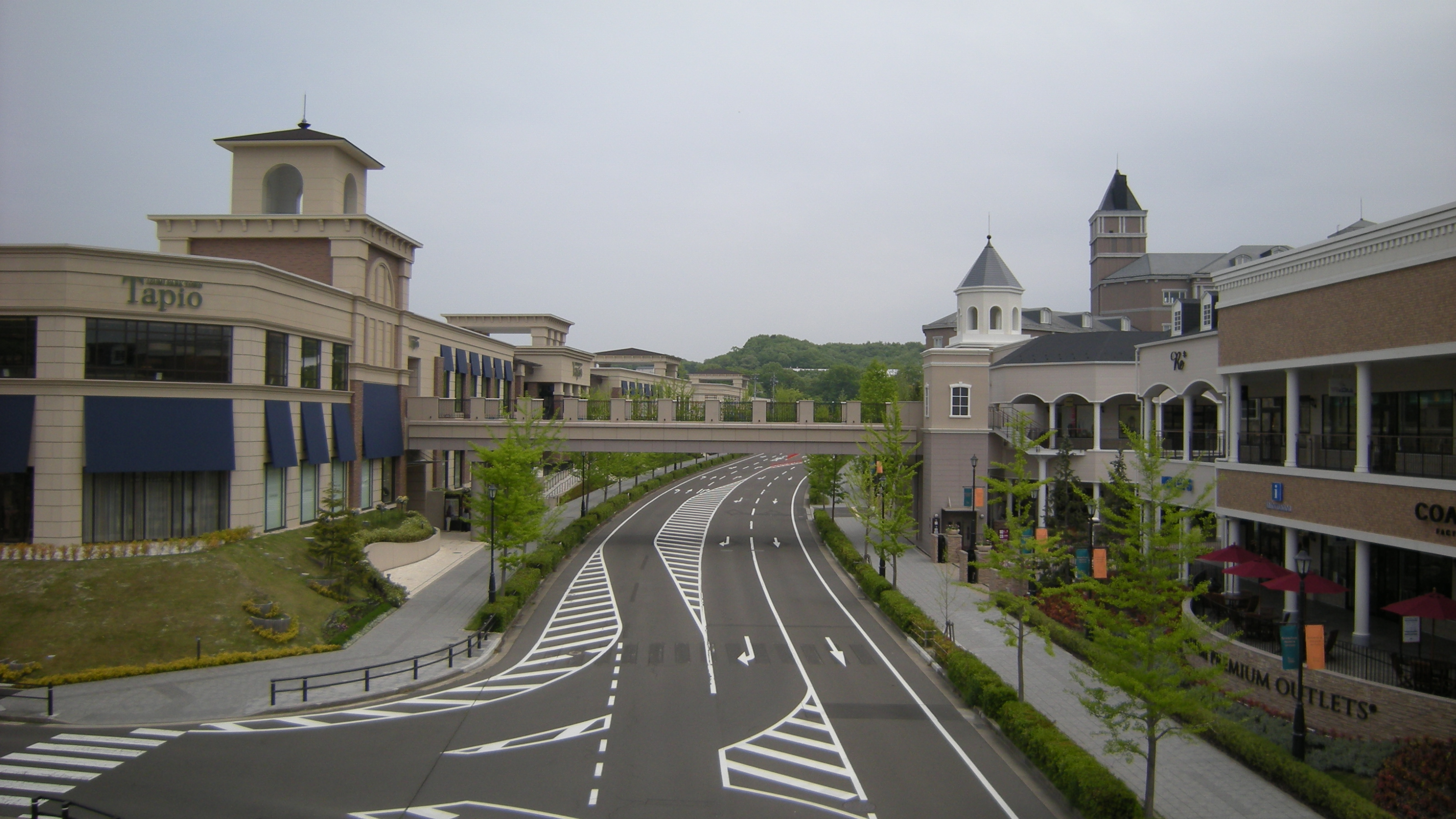 Izumi Park Town Tapio (left) and Sendai Izumi Premium Outlets (right) in Izumi-ku, Sendai City, Miyagi Prefecture, Japan. Pedway connects the two buildings.